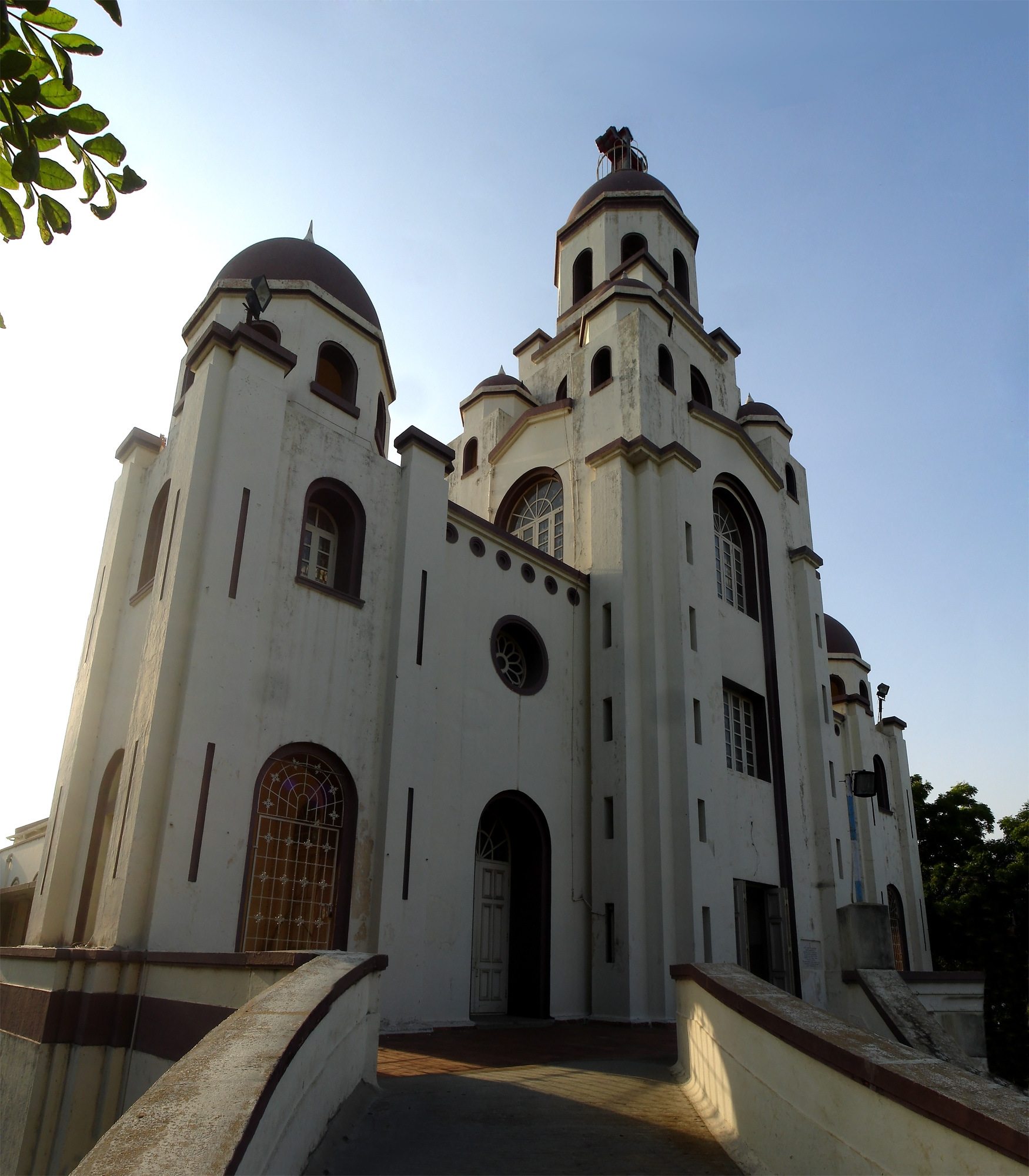 The enterance to Our Lady of Lourdes Shrine, Chennai in Perambur